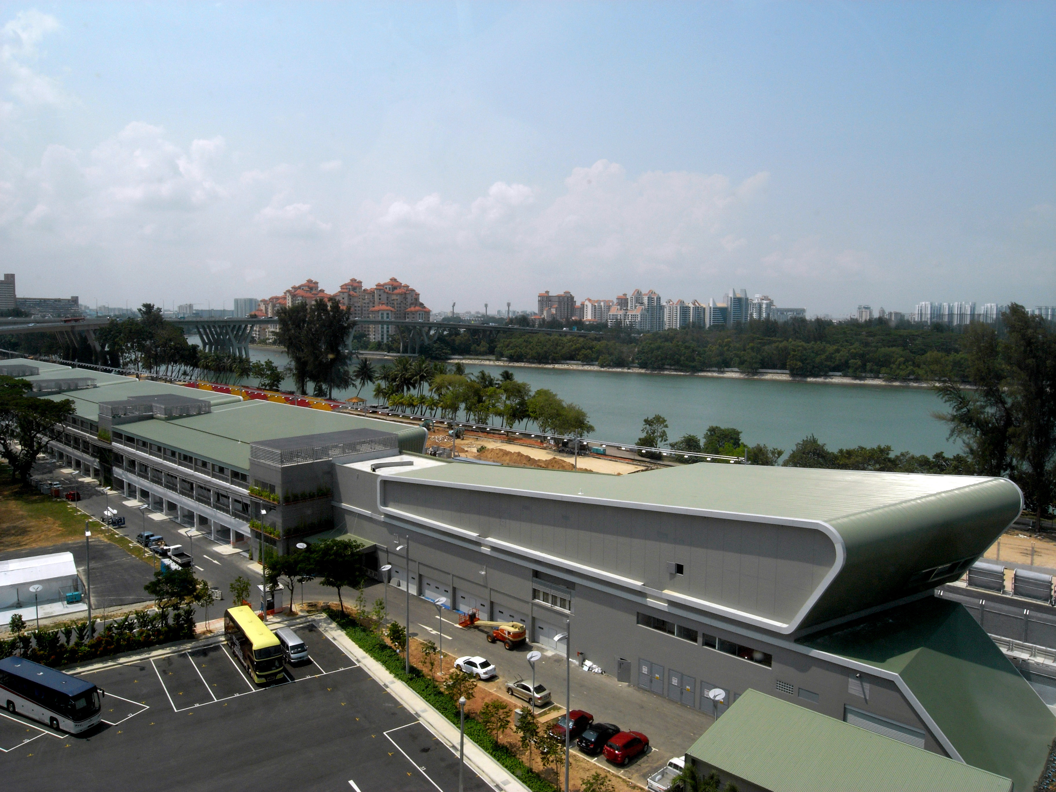 Pit building at Singapore Street Circuit